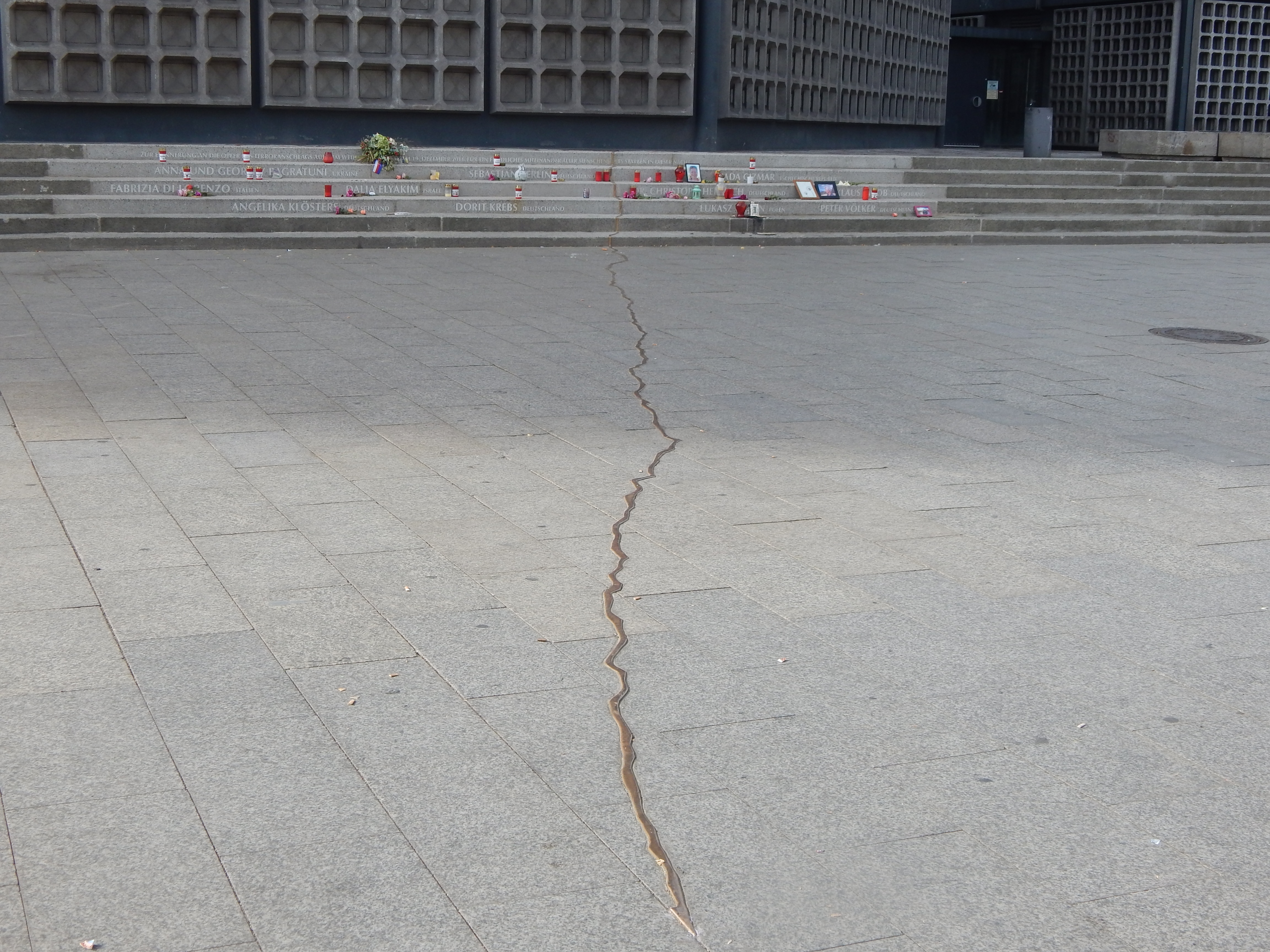 Goldener Riss - memorial of the Christmas Fair attack in Berlin 2016